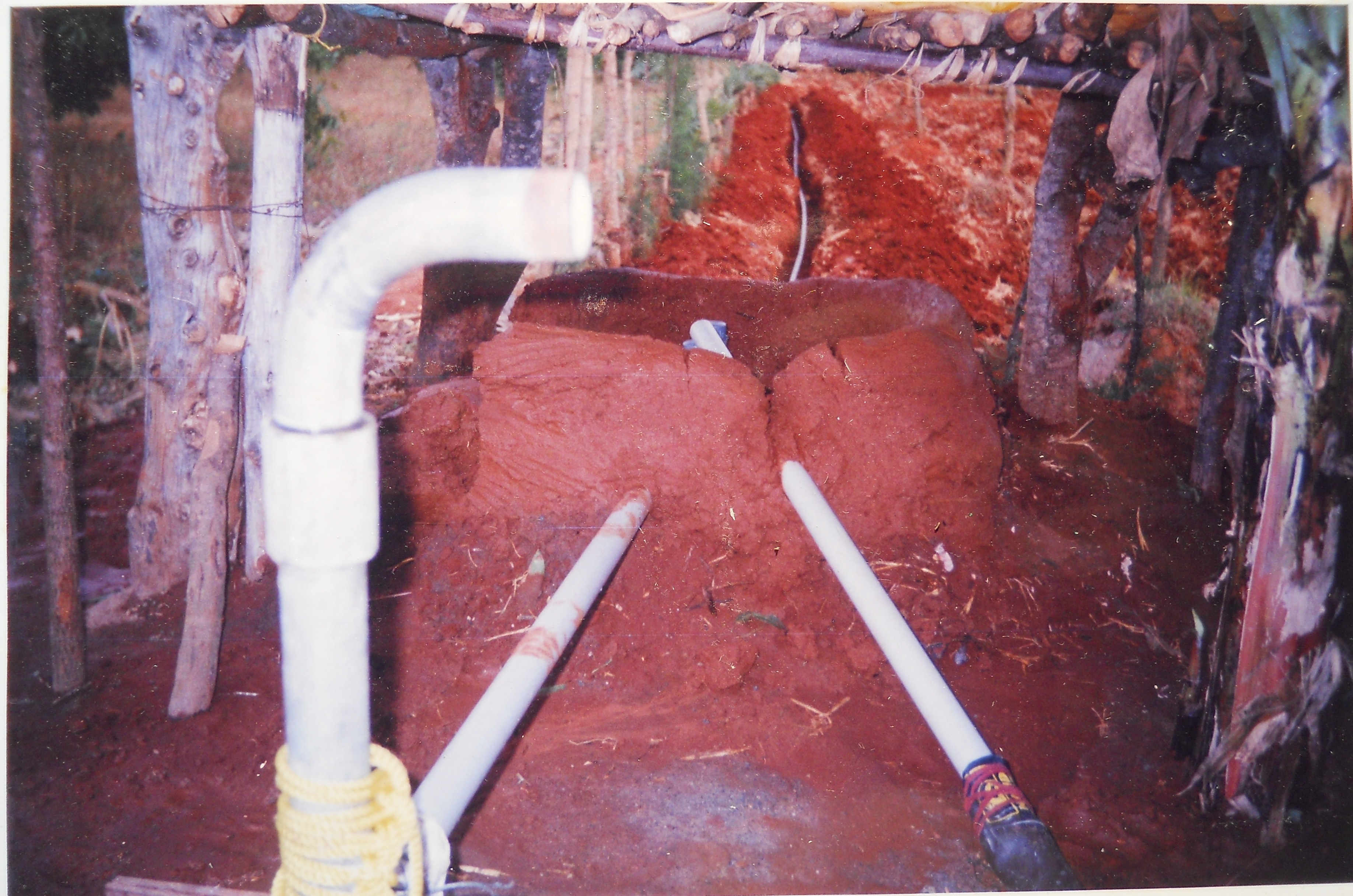 Two bore wells water from one motor - this photo is first experiment place